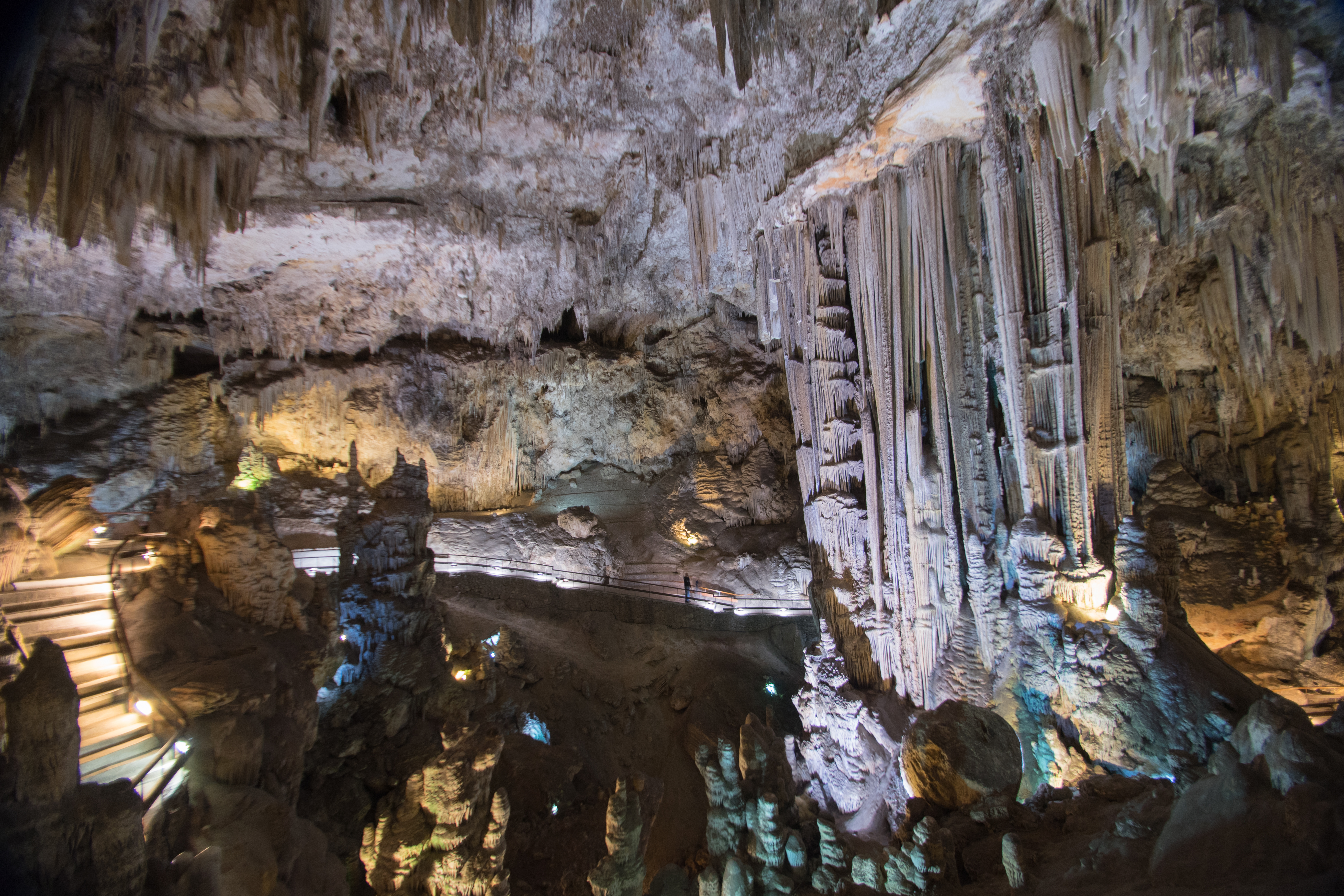 Big Column inside the Opened Part of the Nerja´s Cave